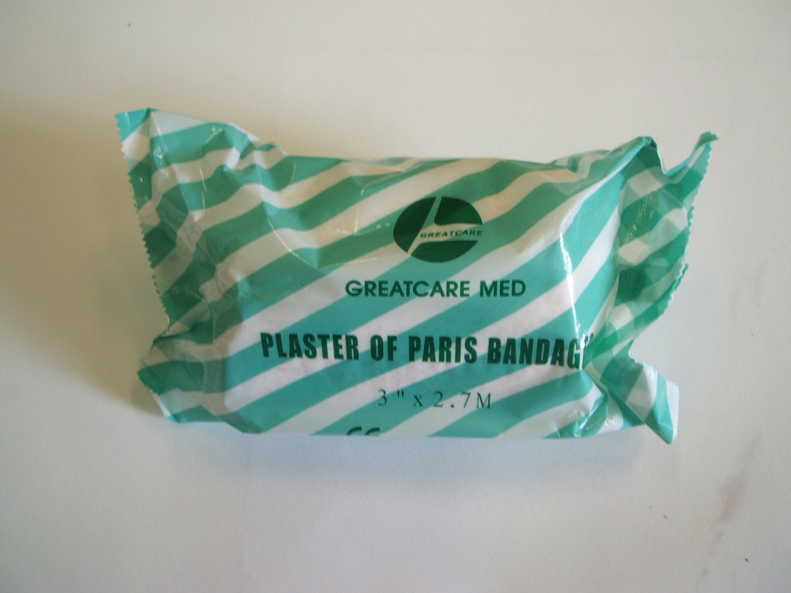 plaster of paris bandage